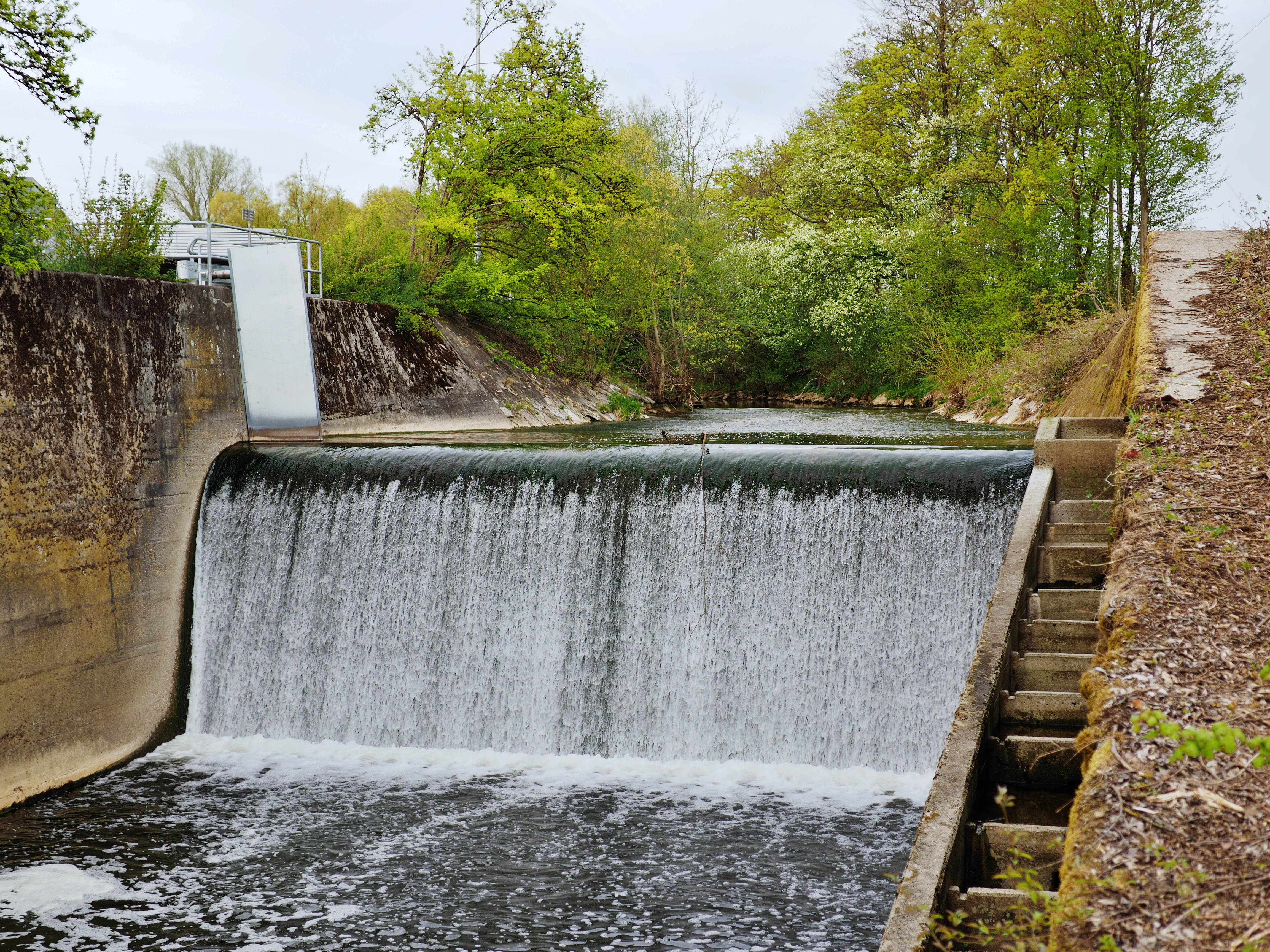 Weir on the Rems river by Hussenhofen